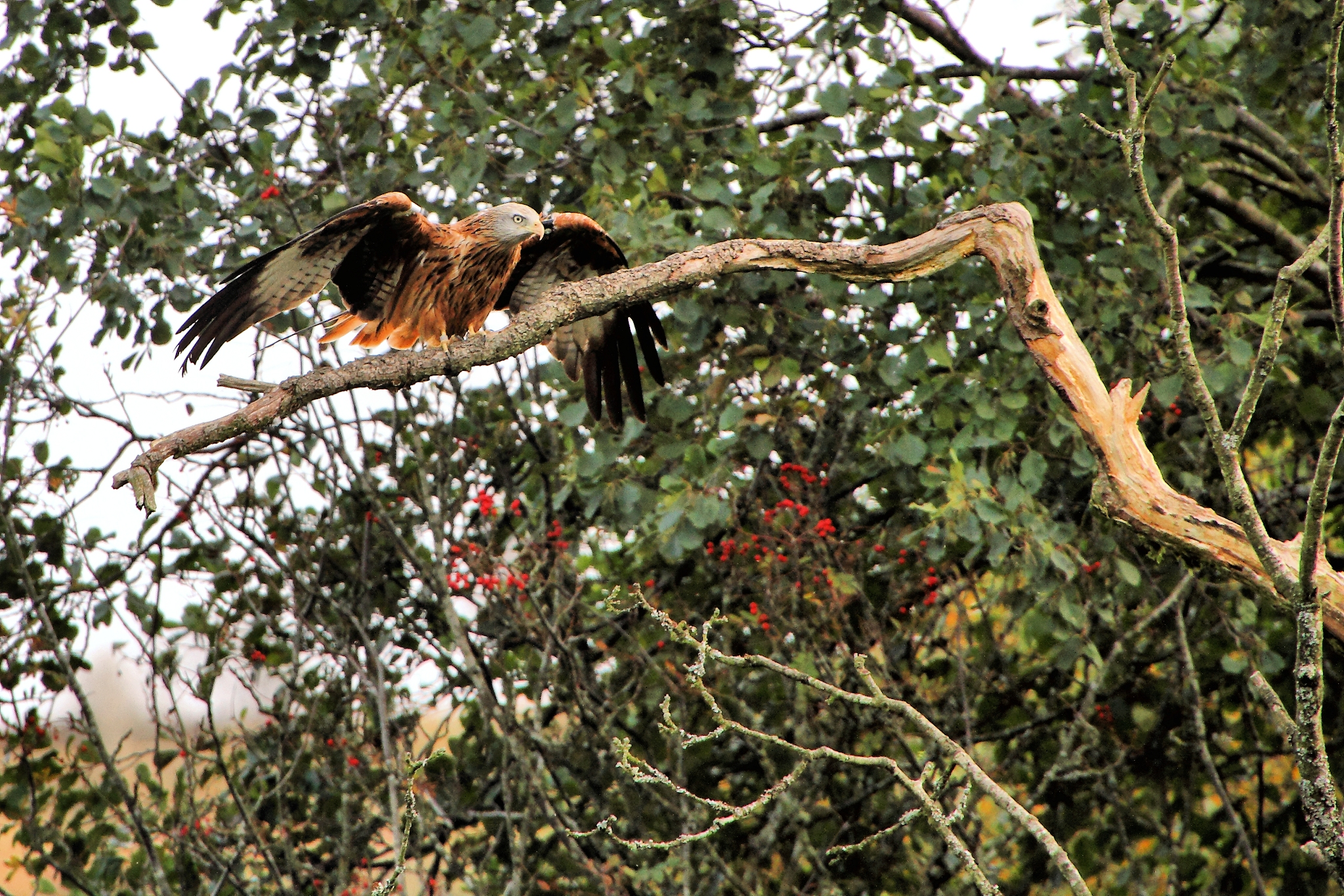 Red Kite Milvus milvus, Gigrin Farm, Rhayader, Wales. Radio-tagged bird (note antenna just above tail).